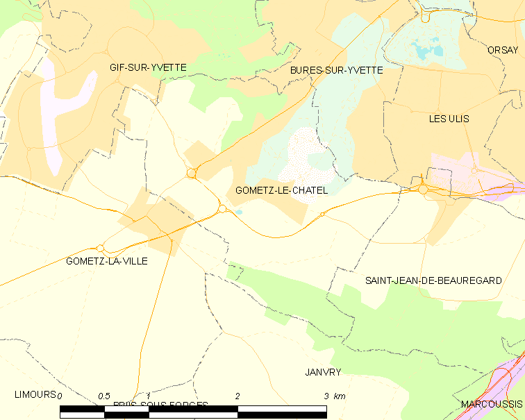 Map of French municipality Gometz-le-Châtel